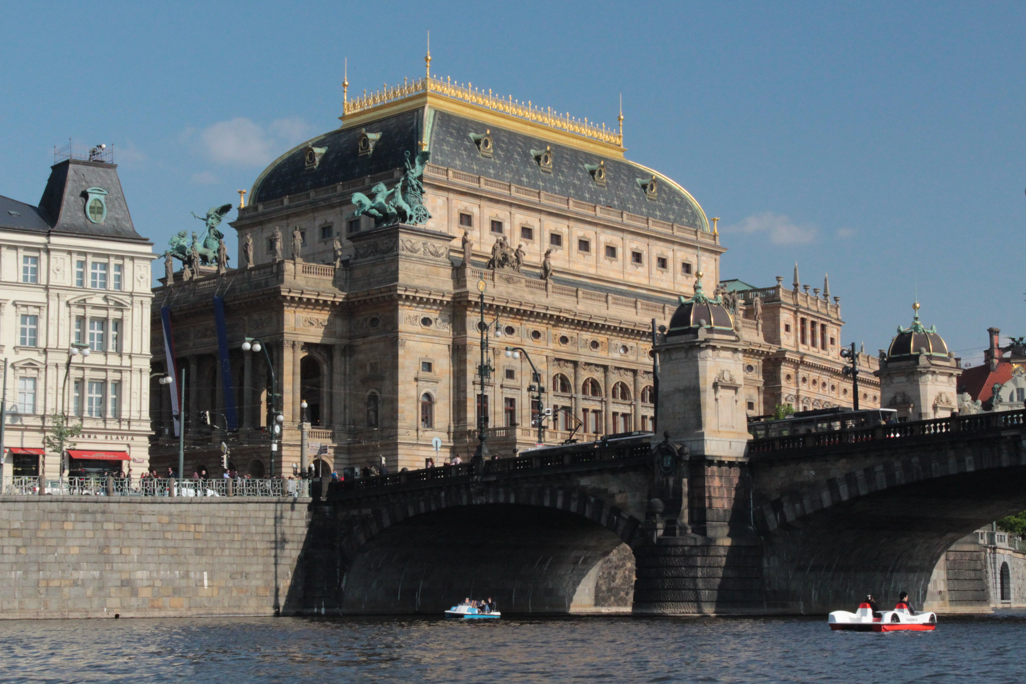 This image has been originally created as the illustration for oyuncunun işyeri entry in crosswords dictionary . It has been released under CC-BY-3.0 license.